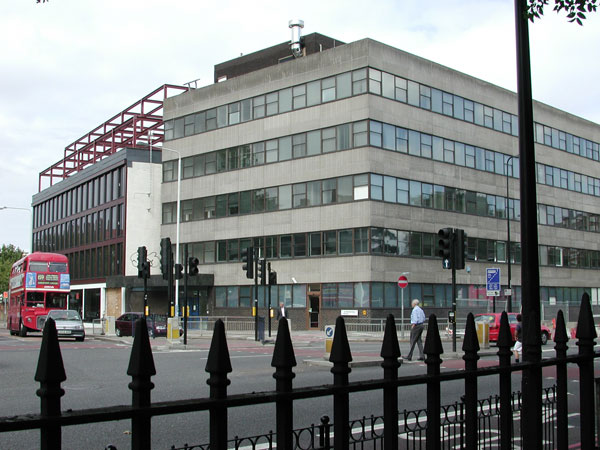 Department of Social Security Building by Richard Seifert on the site of The Horns Tavern, Kennington Park Road